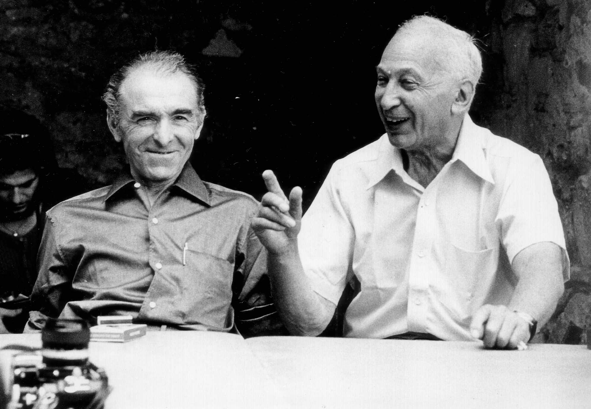 Photographers Robert Doisneau (left) and André Kertész, during a talk in Southern France, 1975. The photograph was taken during '6èmes Rencontres Internationales de la Photographie', Arles, 1975. Nikon 85mm lens.